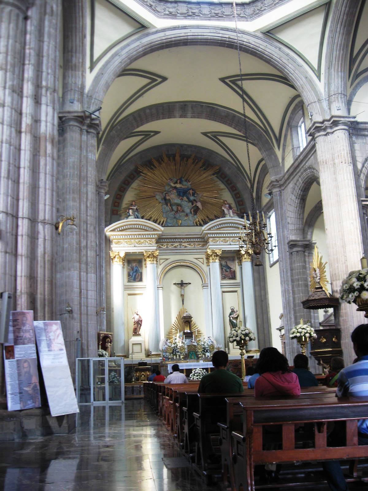 Main Altar located in north wing of the Metropolitan Sagrarium in Mexico City